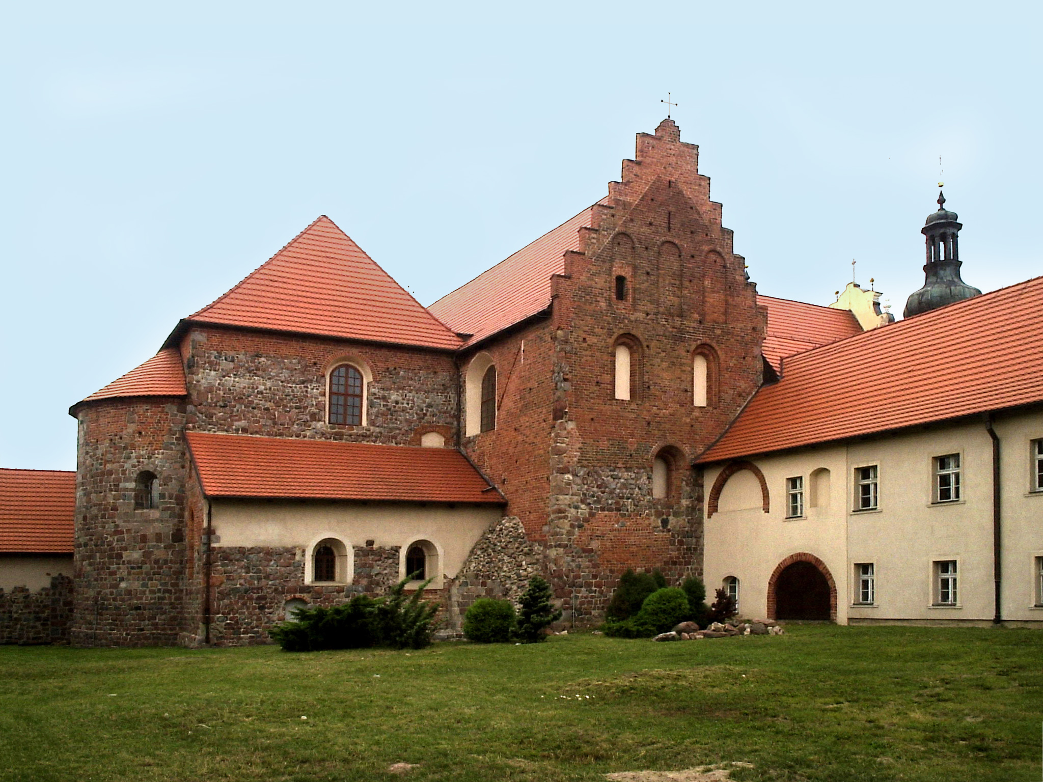 Church of the Holy Trinity and Blessed Virgin Mary in Strzelno, Poland pl